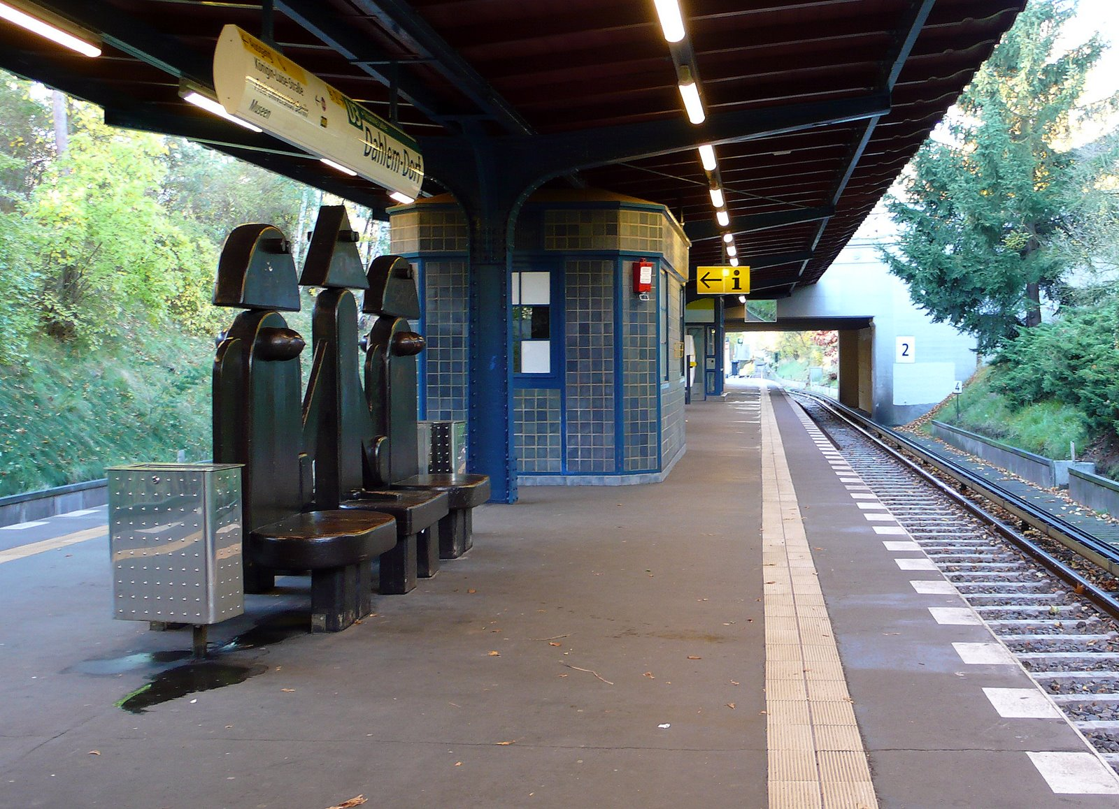 Dahlem Dorf Subway